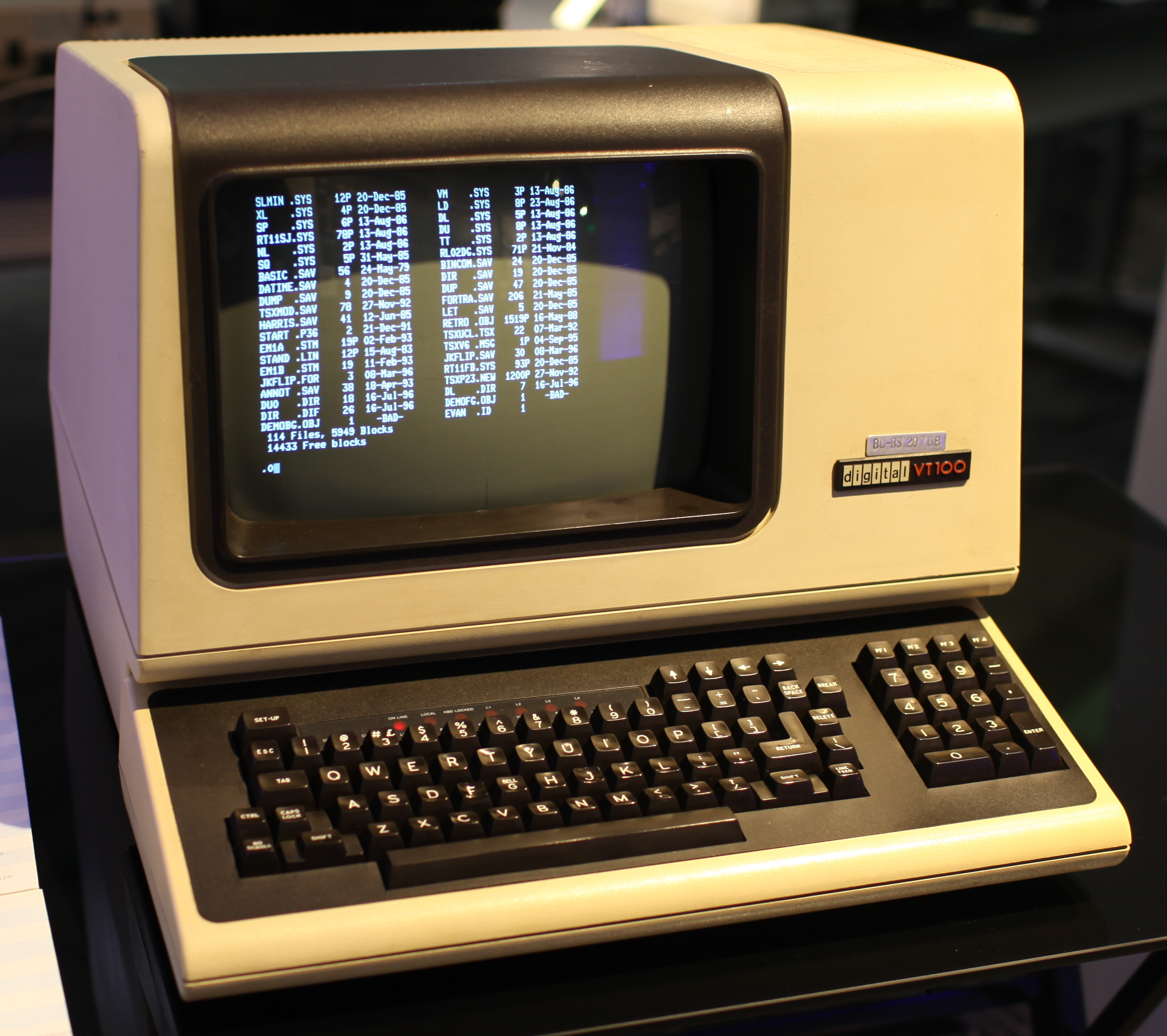 DEC VT100 terminal at the Living Computer Museum (apparently connected to the museum's DEC PDP-11/70)